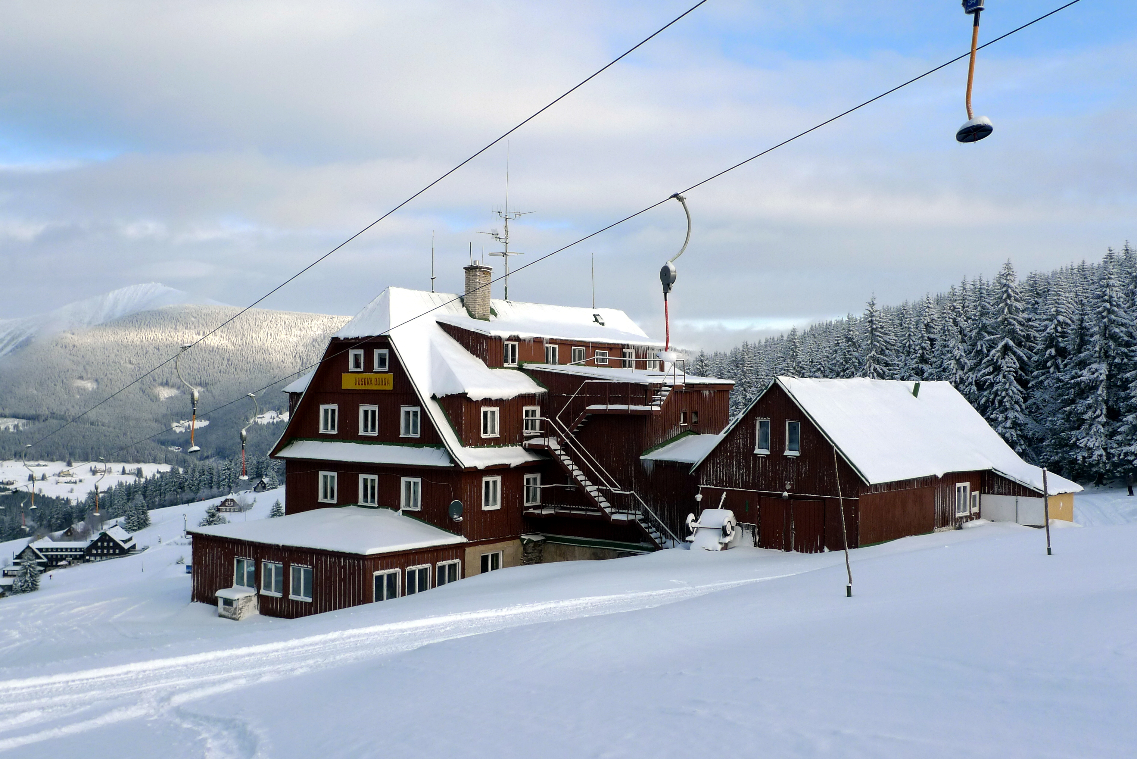 Husova bouda hut in Krkonoše mountains, Czech Republic